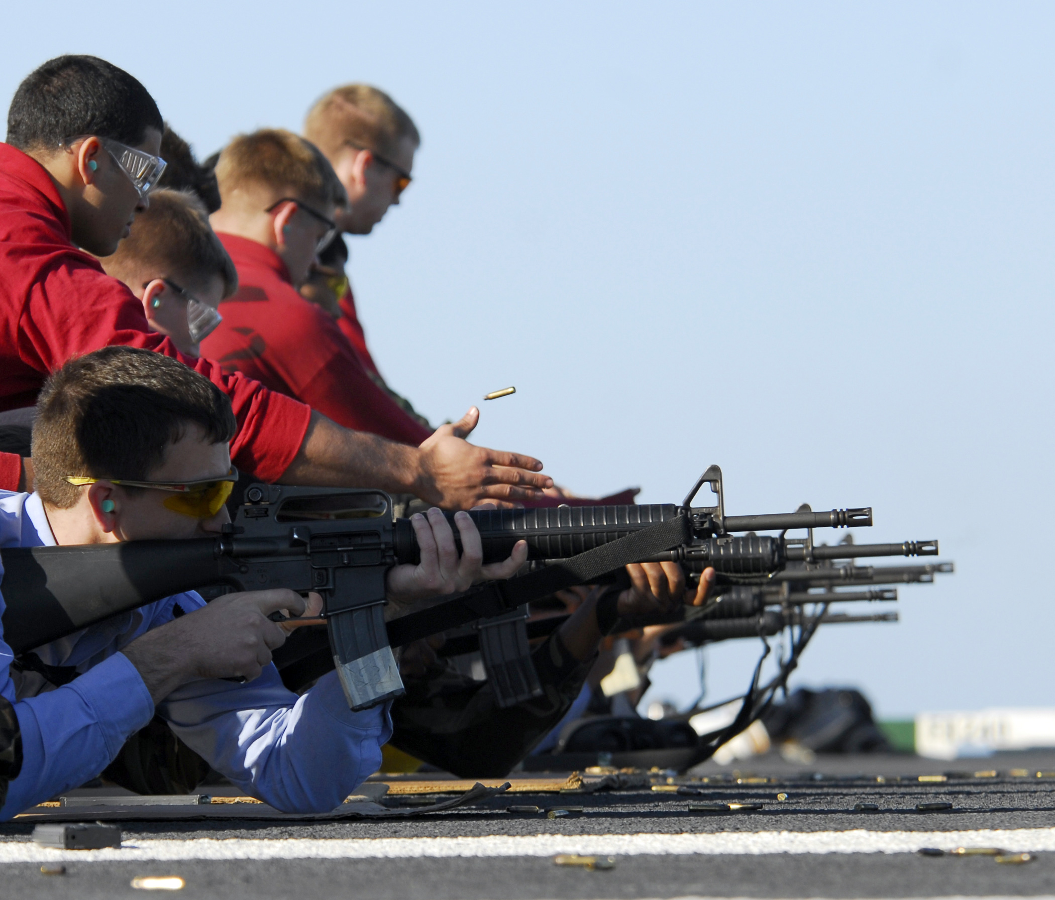 PACIFIC OCEAN (Oct. 12, 2008) Sailors fire M16A3 rifles during small-arms qualifications aboard the Nimitz-class aircraft carrier USS John C. Stennis (CVN 74). Stennis is conducting pre-deployment training off the coast of southern California. U.S. Navy photo by Mass Communication Specialist 3rd Class Dmitry Chepusov/Released)